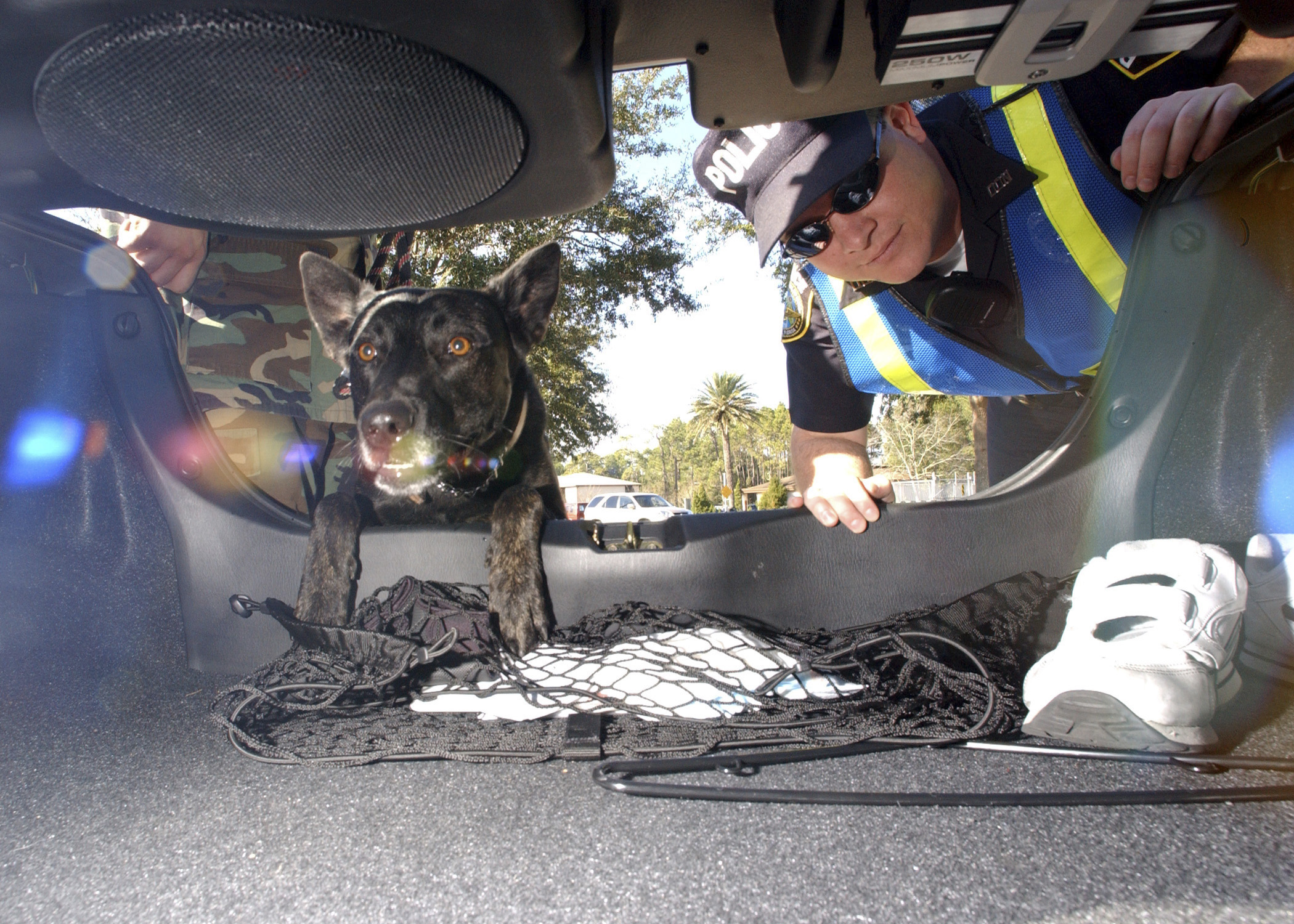 Naval Air Station Jacksonville, Fla. (Jan. 12, 2004) -- Naval Station security personnel use one of the station’s K-9 drug inspection dogs during a random vehicle inspection at the front gate at Naval Air Station Jacksonville. U.S. Navy photo by Photographer’s Mate 3rd Class Jamar X. Perry. (RELEASED)